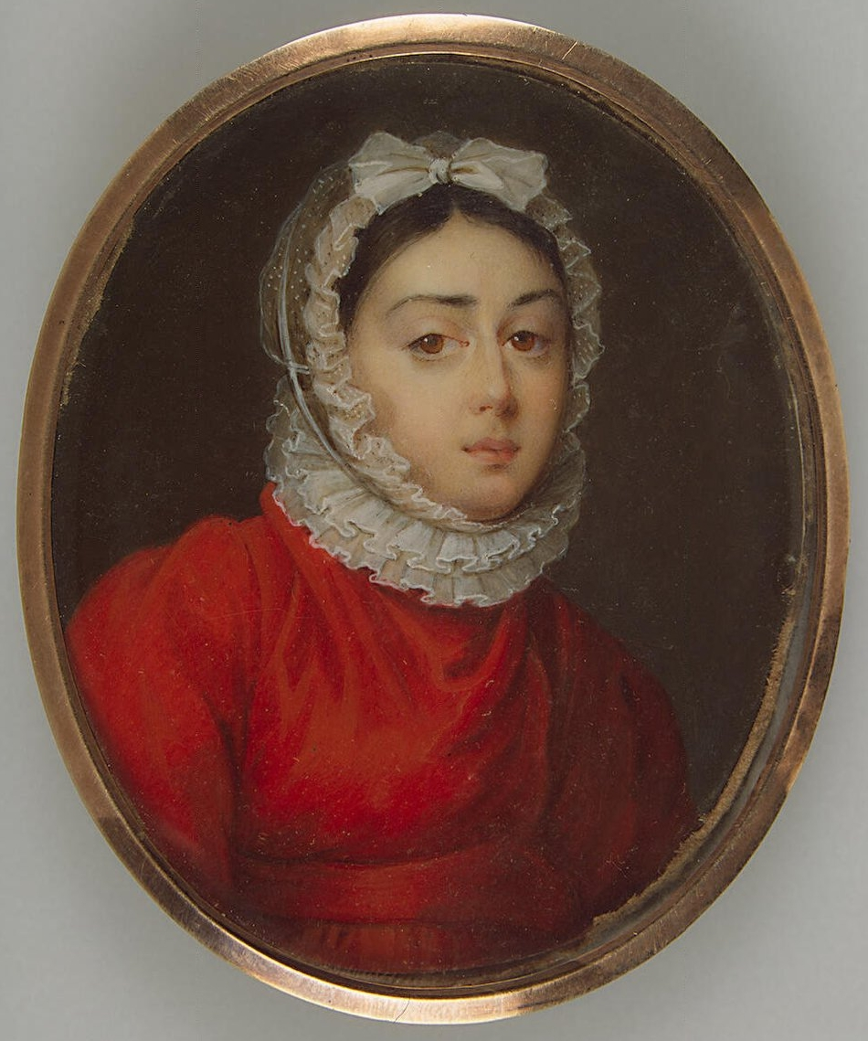 Catherine Fedorovna Tiesenhausen, said to be mistress of Friedrich Wilhelm IV